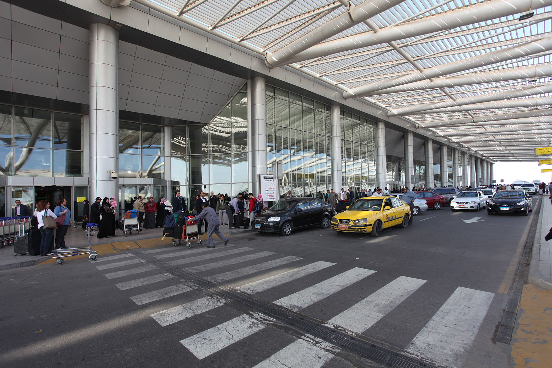 Cairo International Airport, Façade of Terminal 3